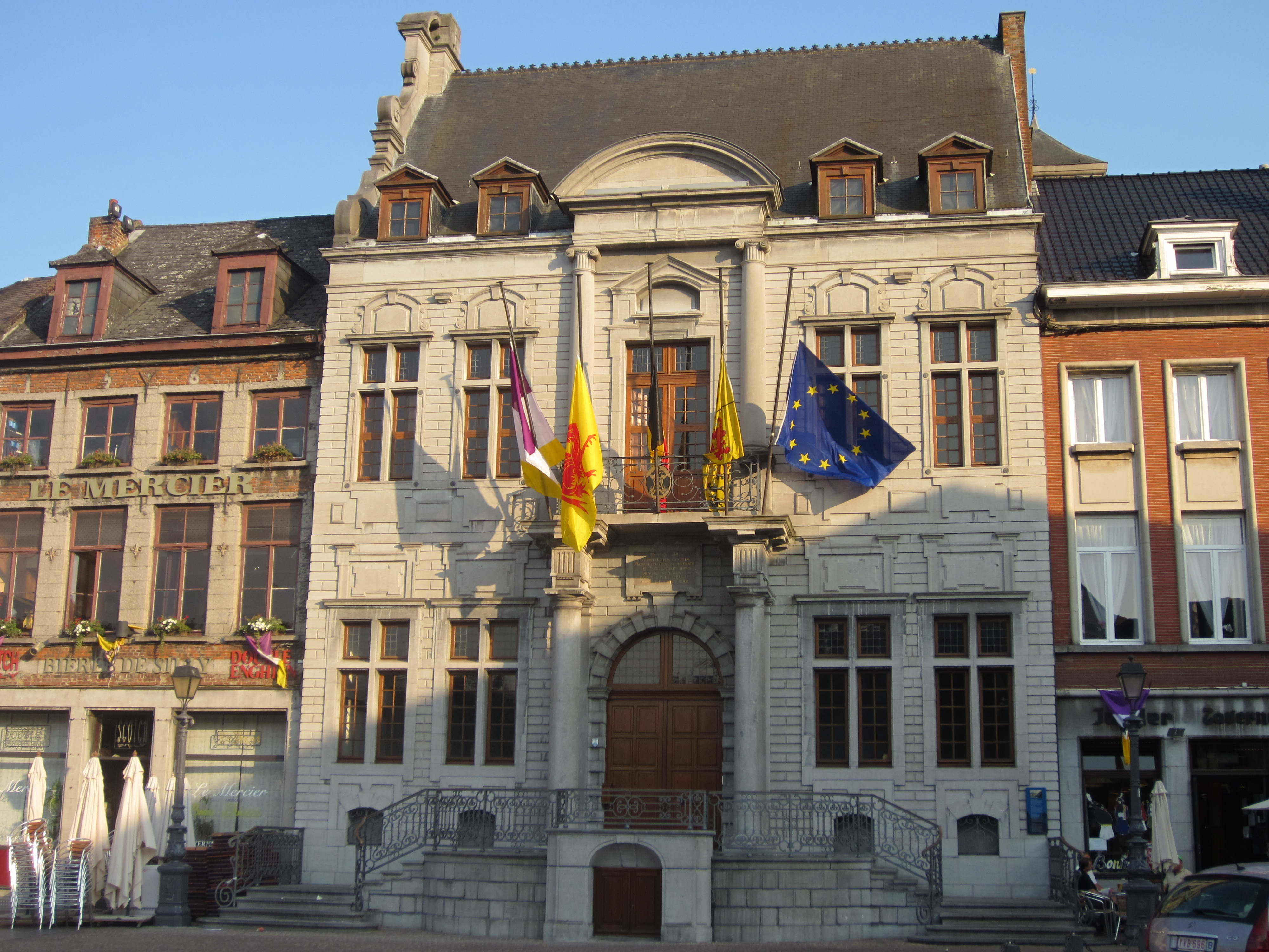 City Hall of Ath, designed by Wenzel Coebergher in 1614; the central bay is flanked by half-columns with capitals, a correct application of the Vitruvian orders